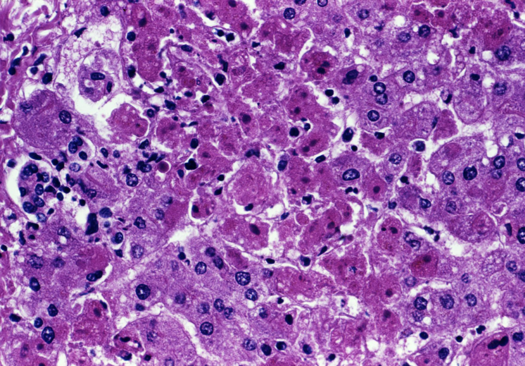 This photomicrograph revealed the cytoarchitectural histopathologic changes detected in a liver sample from a Marburg patient (case #1) who was treated in Johannesburg, South Africa in 1975. As the disease progresses, symptoms of Marburg disease can become increasingly severe and may include liver failure, jaundice, inflammation of the pancreas, severe weight loss, delirium, shock, massive hemorrhaging, and multi-organ dysfunction.